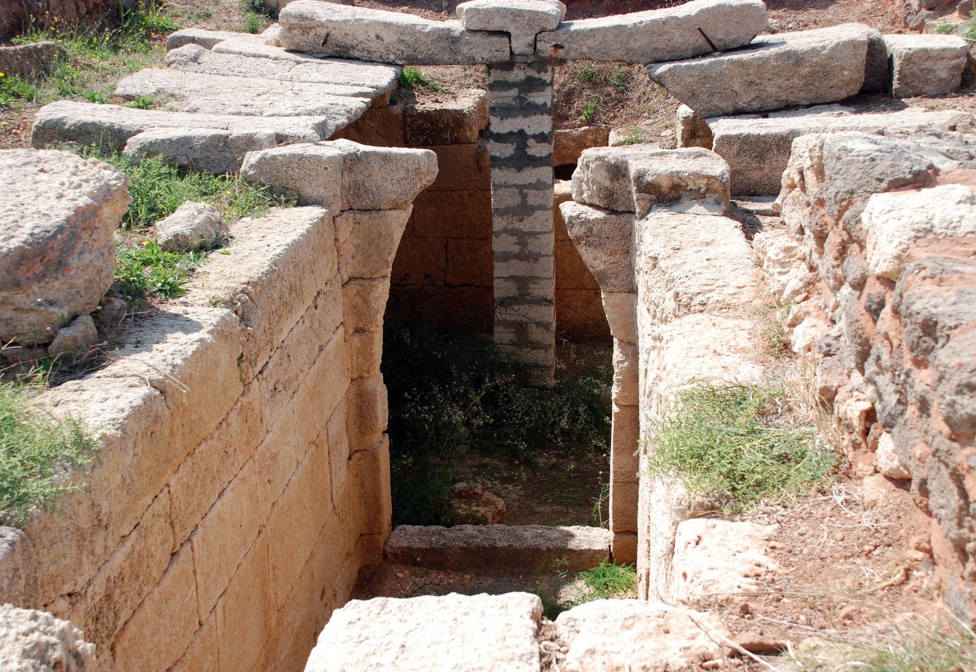 Ras Ibn Hani, near Ugarit, Syria. Tomb in north palace